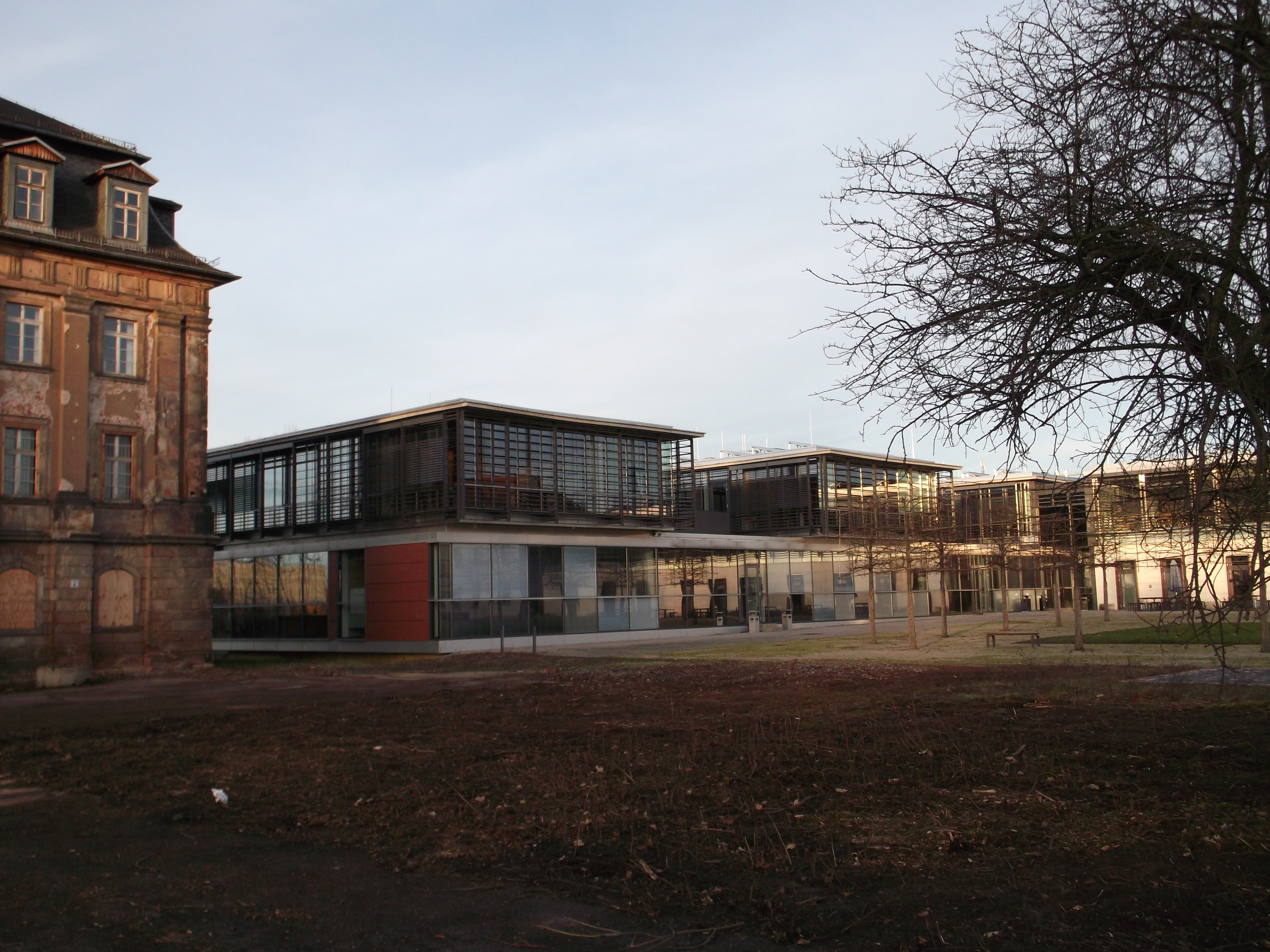 Former Tinz Castle and Berufsakademie (Academy of Cooperative Education) in Gera, Germany, in December 2012; shortly before beginning of the castle's modernization